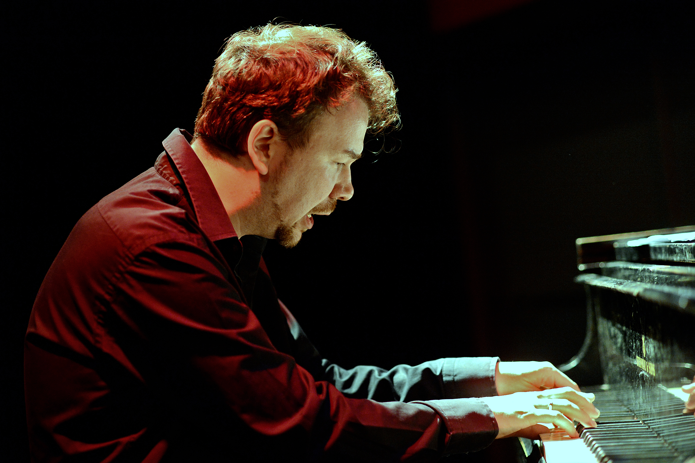 Florian Weber in concert at Stadtgarten Köln, Germany, June 7th, 2012